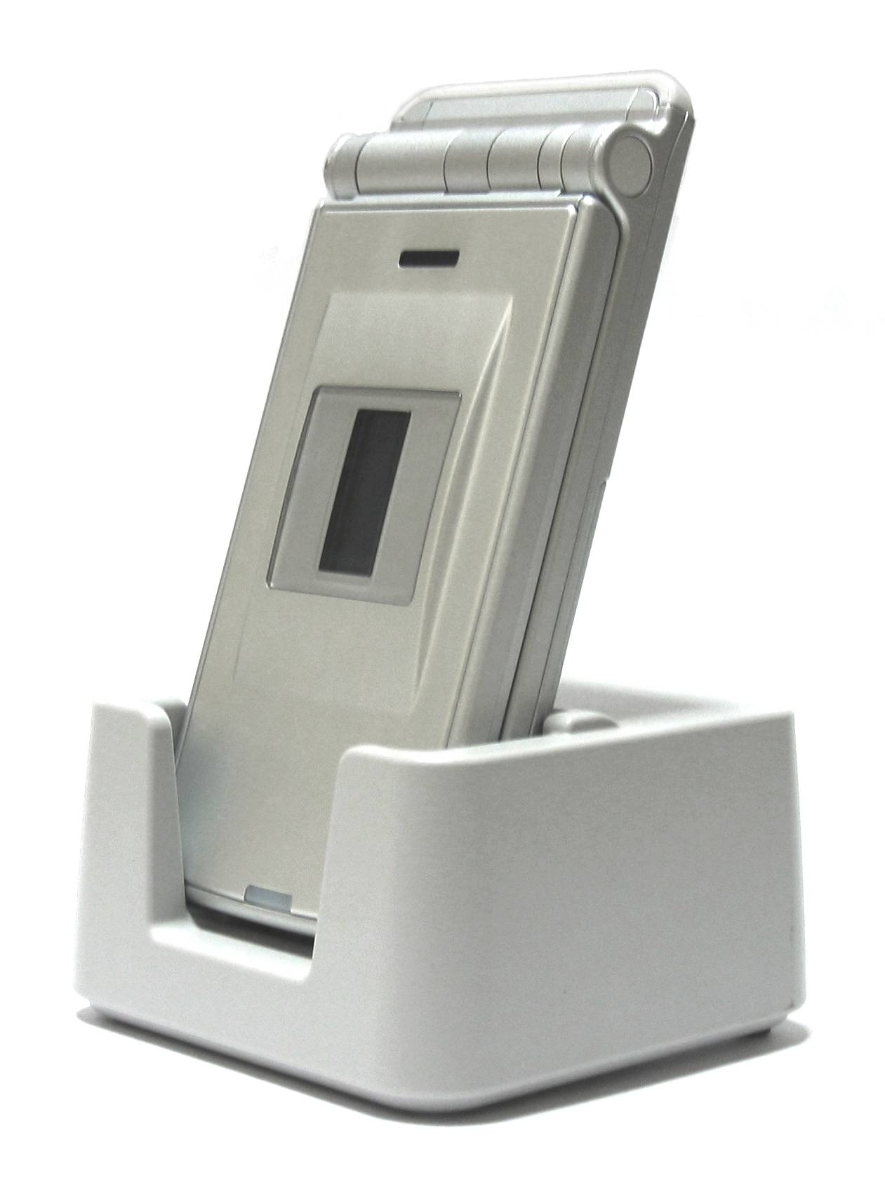 NTT DoCoMo mova P213i prosolid. It set the phone on the cradle.